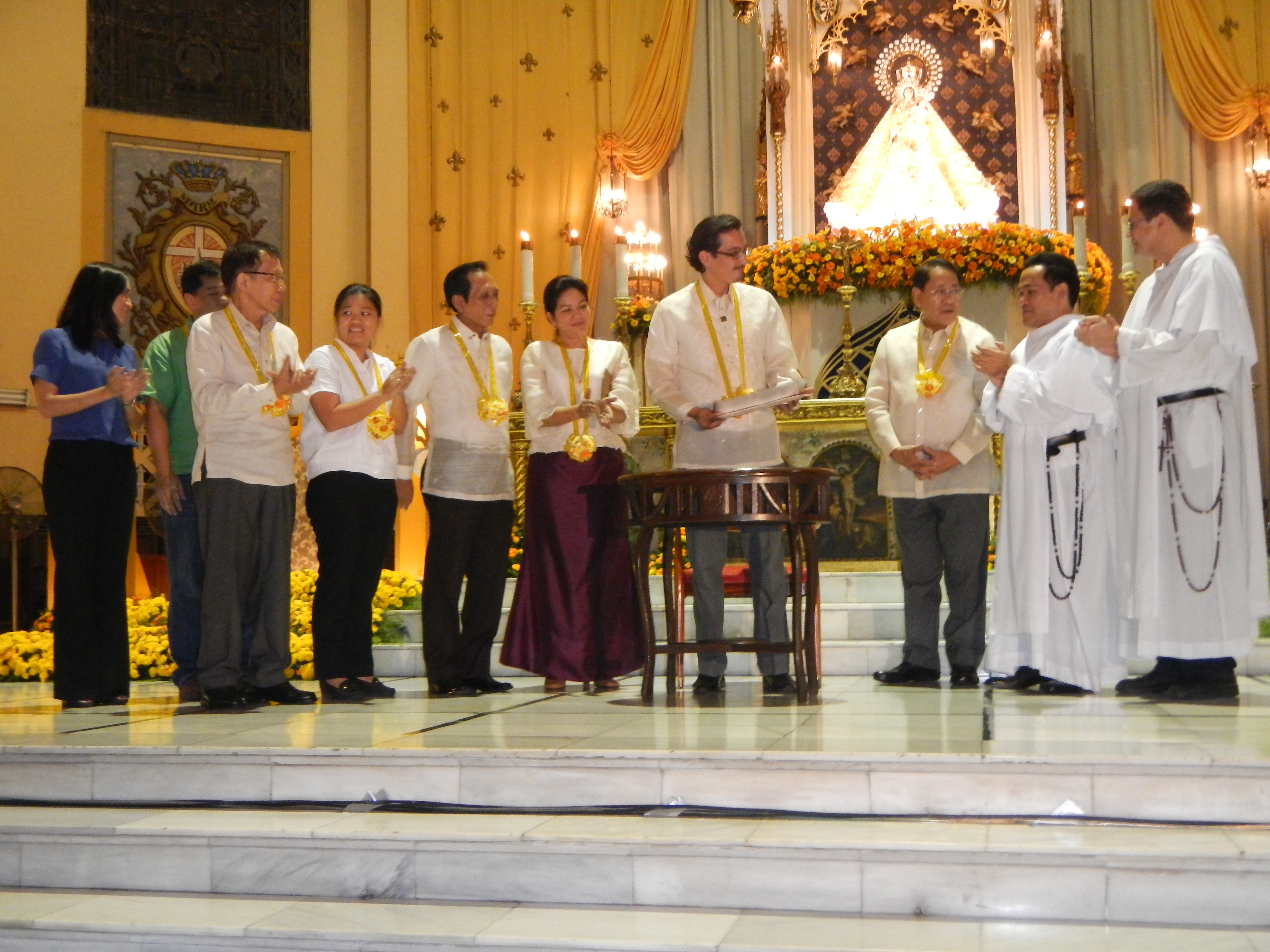 October 4, 2012 Historic Photo of the Declaration of the Church of St. Dominic in Quezon City, the Philippines, or the National Shrine of Our Lady of the Most Holy Rosary of La Naval/Santo Domingo Parish Church as National Cultural Treasure (L-R):Joy Belmonte[1] (Quezon City Vice Mayor), Cong. Vicente Crisologo[2] (5th), Dr. Jereym Barns, CESO III, Director IV[3], National Museum of the Philippines[4], (7th),Senator Edgardo Javier Angara[5], (8th), Rev. Fr. Giuseppe Pietro V. Arsciwals, O.P., Rector[6], (9th) & Fr. Gerard Francisco Timoner, Prior Provincial of the Dominican Province of the Philippines[7] (10th) by virtue of Republic Act No. 10066 - National Cultural Heritage Act of 2009 - National Cultural Heritage Act announced officially by the Catholic Bishops' Conference of the Philippines[8] and by the National Museum of the Philippines[9][10]